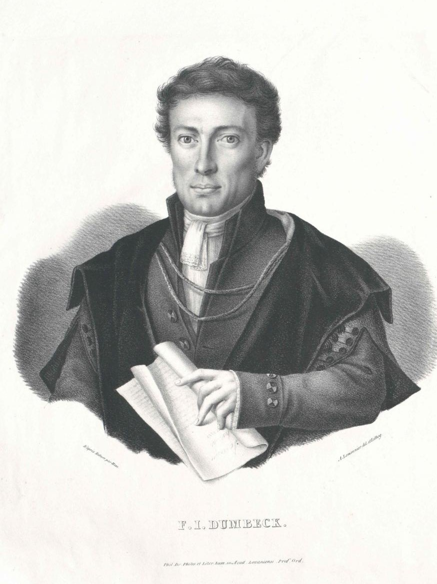 Portrait of Franz Josef Dumbeck in Austrian National Library